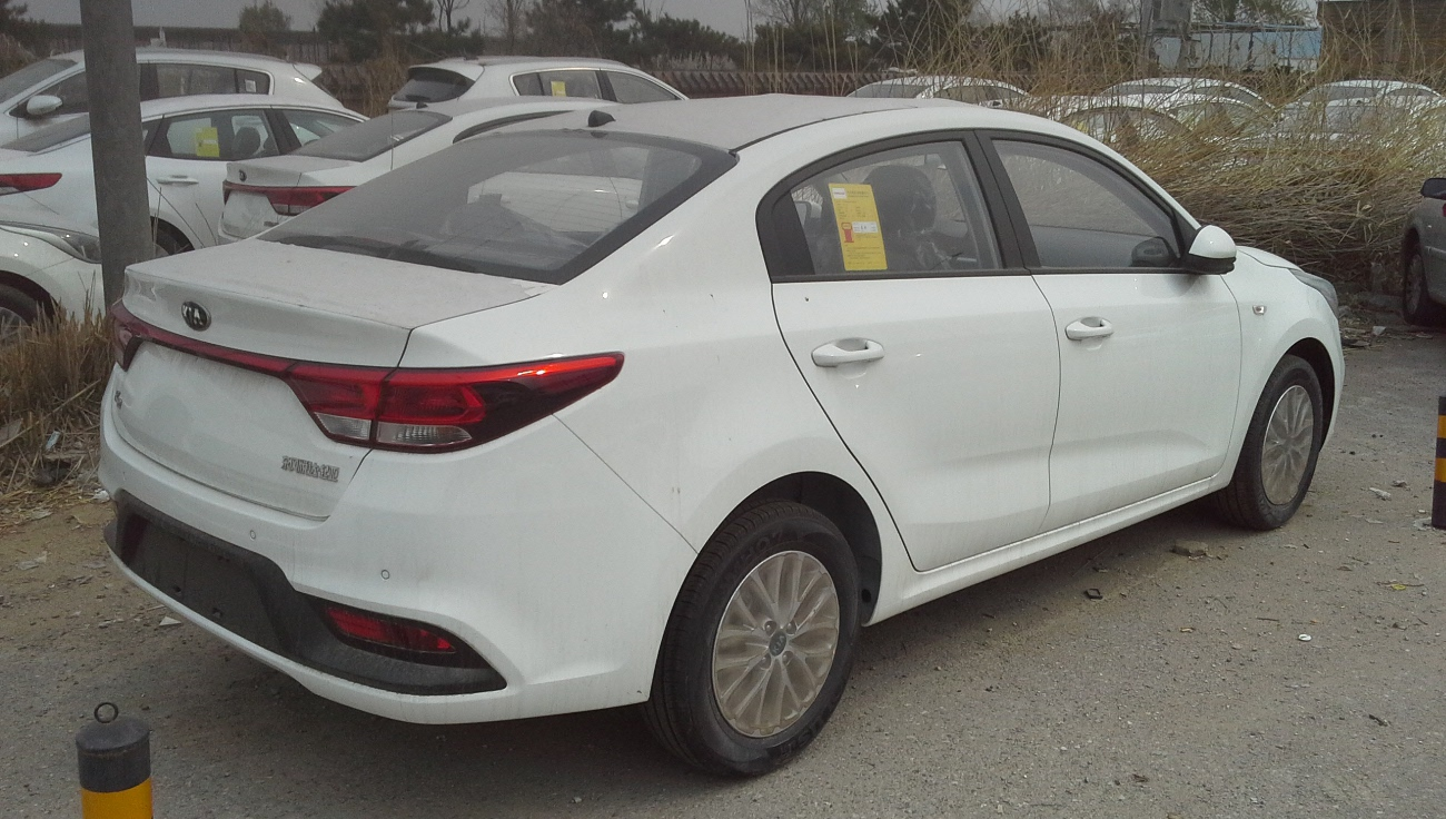 Kia K2 UC photographed in Beijing, China.